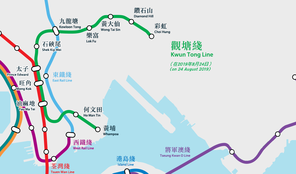 Kwun Tong Line on 24 August 2019, after partial suspension of train service